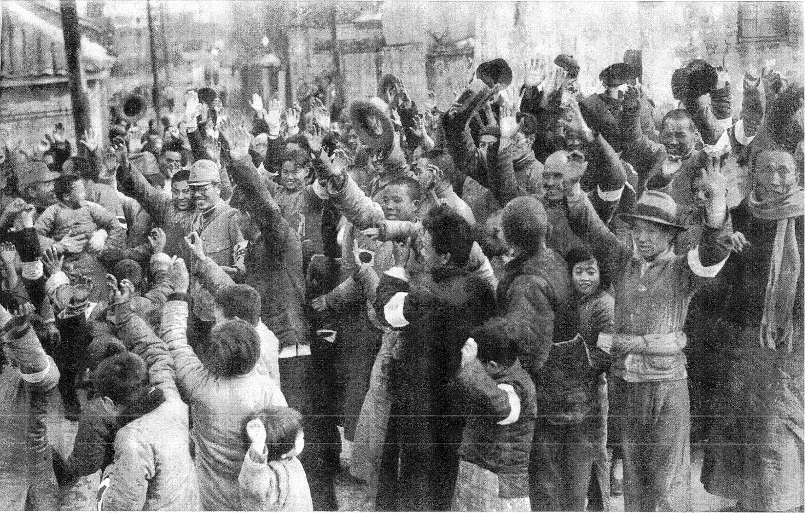 Cheers for Japanese forces by refugees who are receiving the distribution of sweets and cigarettes on the Japanese forces' "Nanking Entry Ceremony" day.